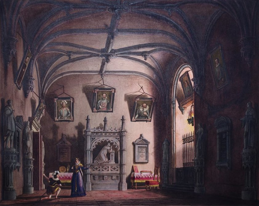 "Camera" (room) Set design by Alessandro Sanquirico for the ballet 'Maria Stuarda' by Giovanni Galzerani staged at La Scala in Milan, 1826. Aquatint engraving with original hand color, after a drawing by Alessandro Sanquirico.